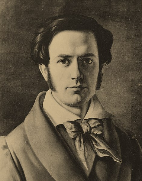 Eduard Magnus, self-portrait, 1827